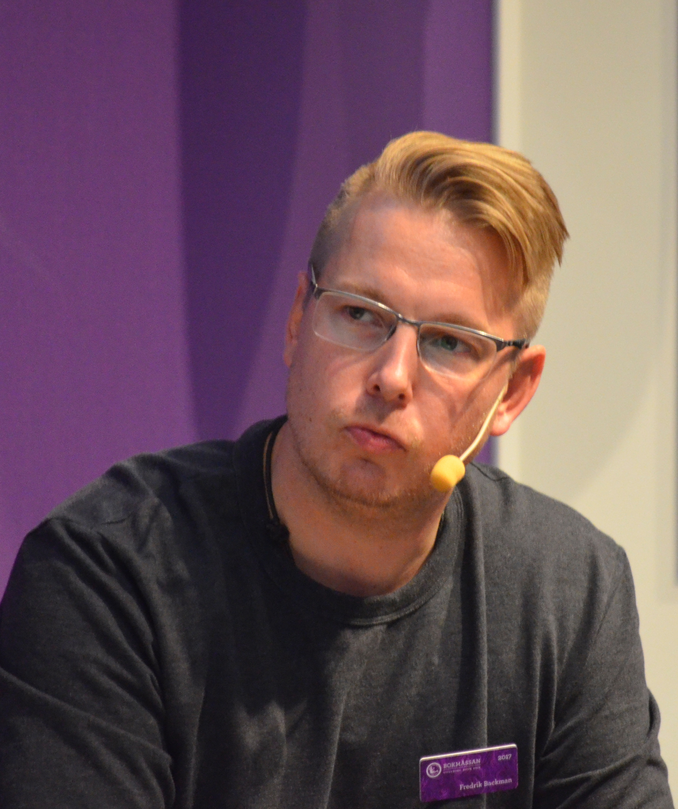 Fredrik Backman Gothenburg Book Fair 2017